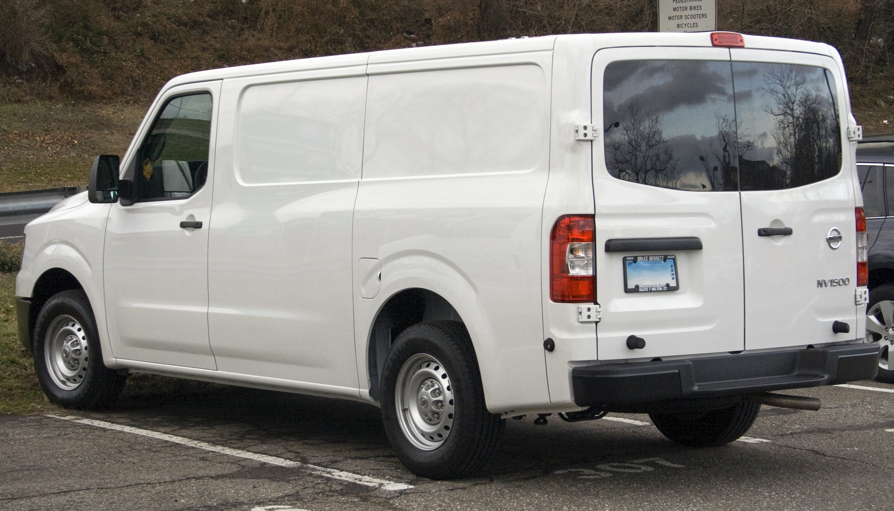 Rear view of 2012 Nissan NV1500